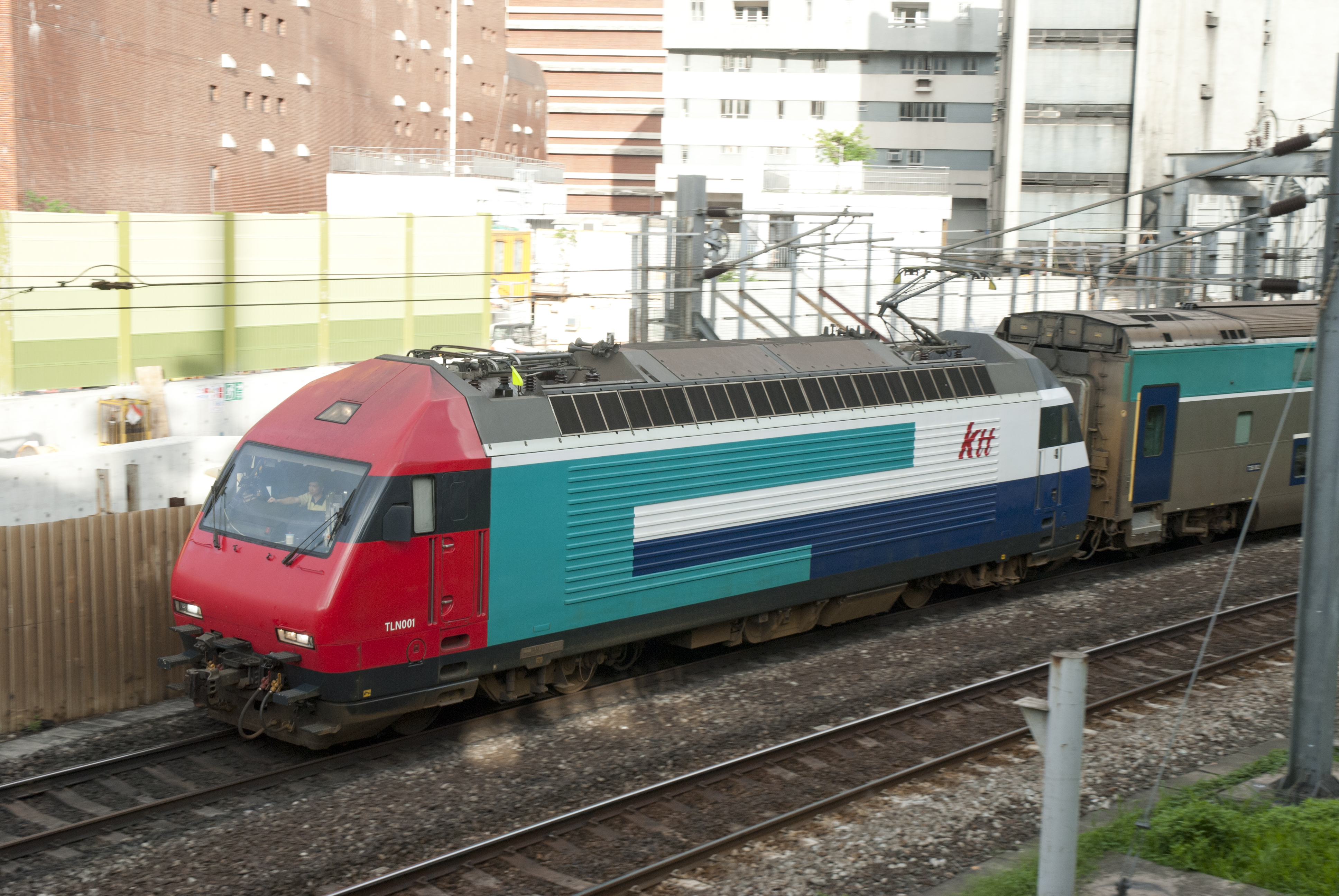 MTR KTT locomotive TLN001 on East Rail Line departing from Hung Hom Station